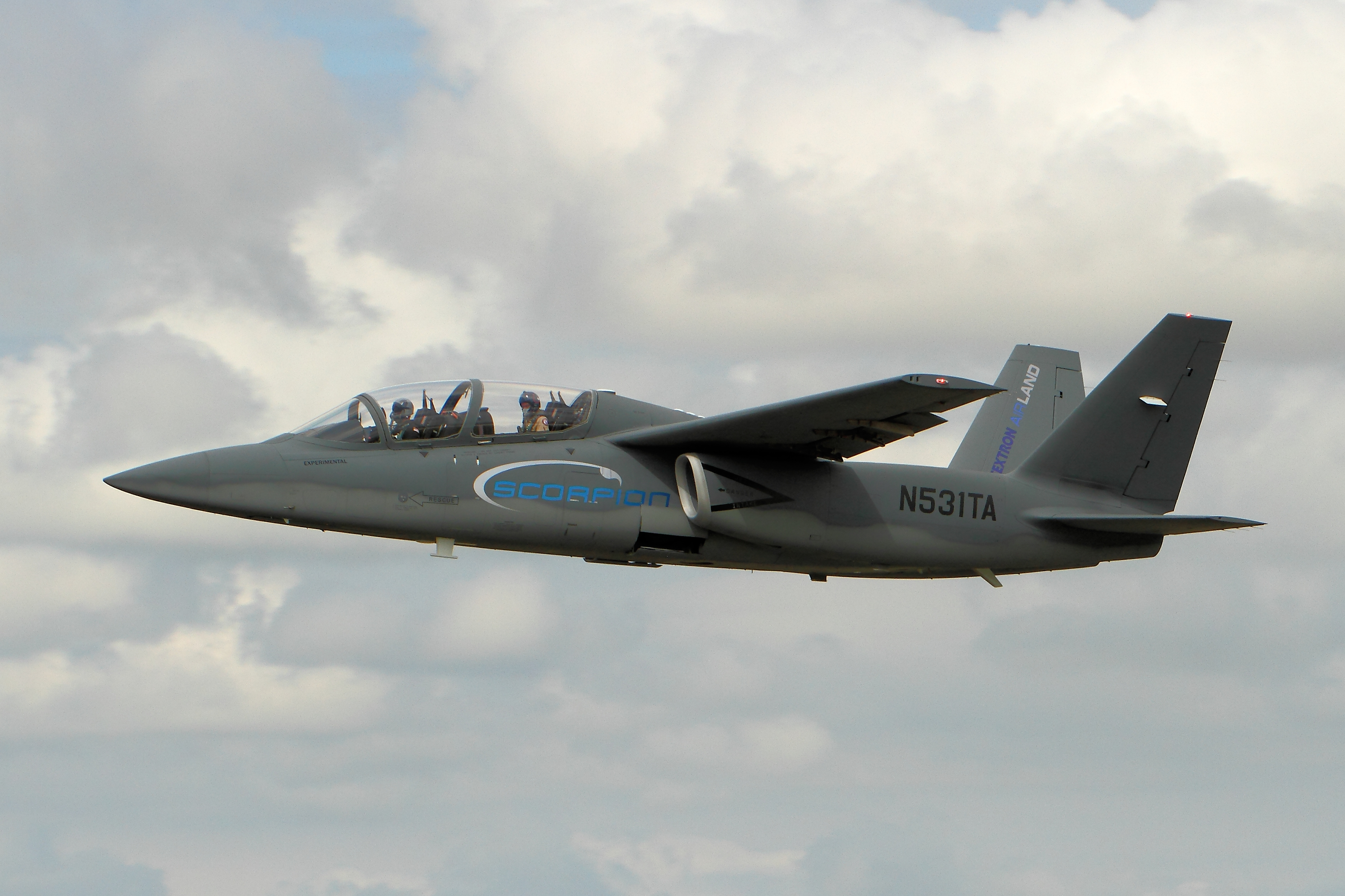 Textron Airland Scorpion at the 2014 Royal International Air Tattoo